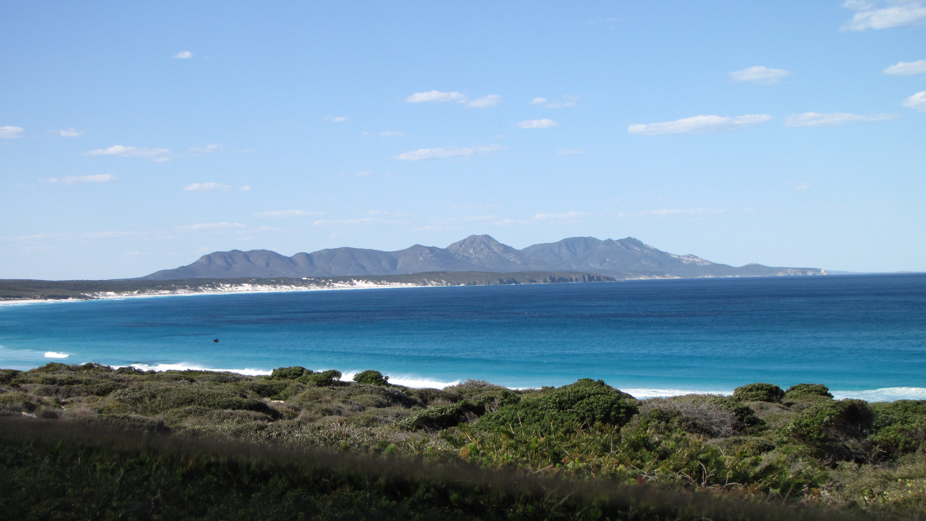 The Fitzgerald River National Park, as seen from Point Ann, within the park. The black dot on the bottom left hand side is a Southern Right whale and its calf.